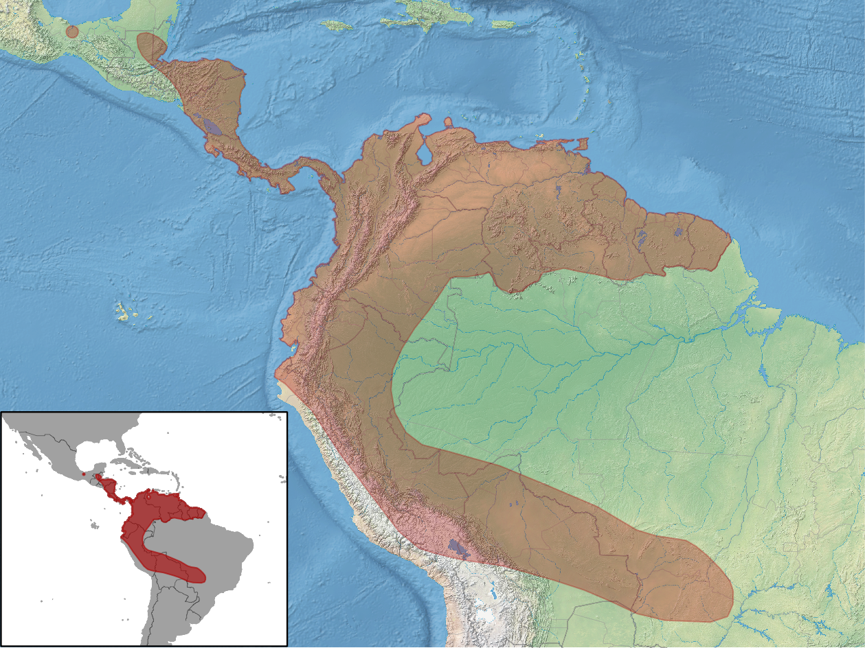 geographic distribution of Vampyrum spectrum